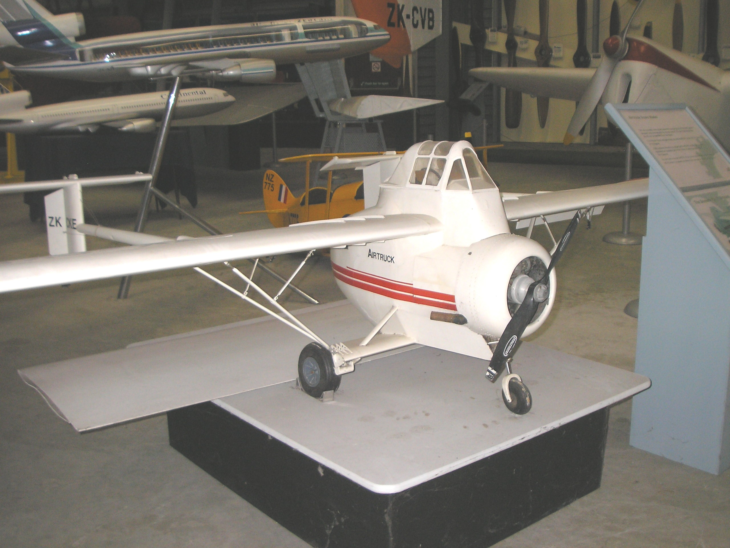 Bennett Airtruck Aerial Topdressing model at the Museum of Transport and Technology, Auckland, New Zealand.